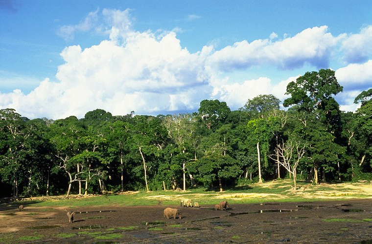 wetland central africa republic family of forest elephants saline dzanga sangha